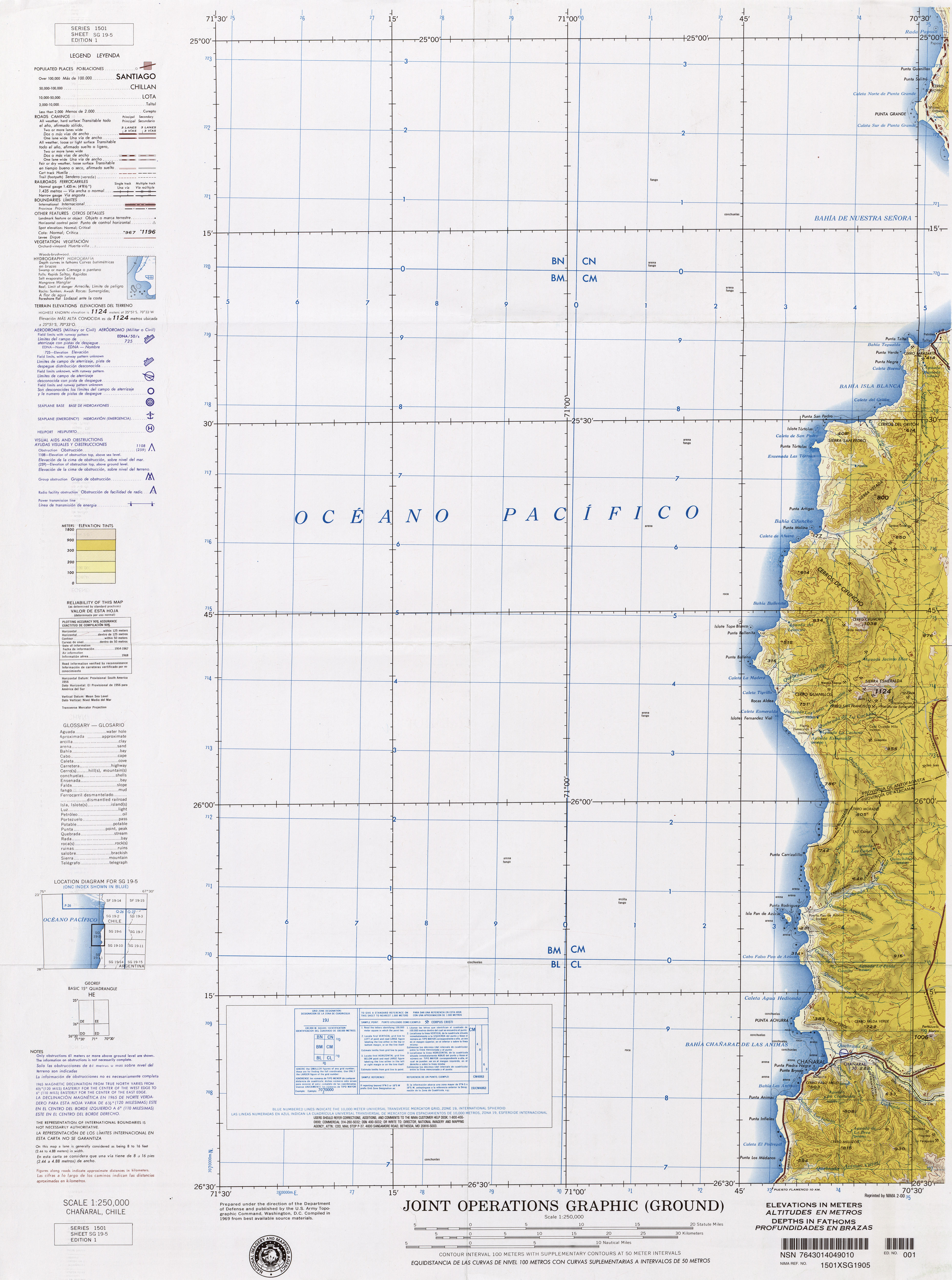 Taltal, Chañaral